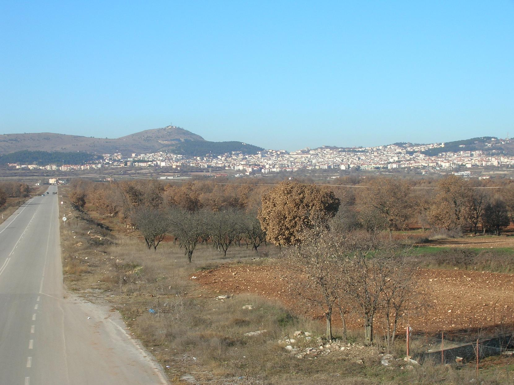 User:Makedonas is the creator of this work.